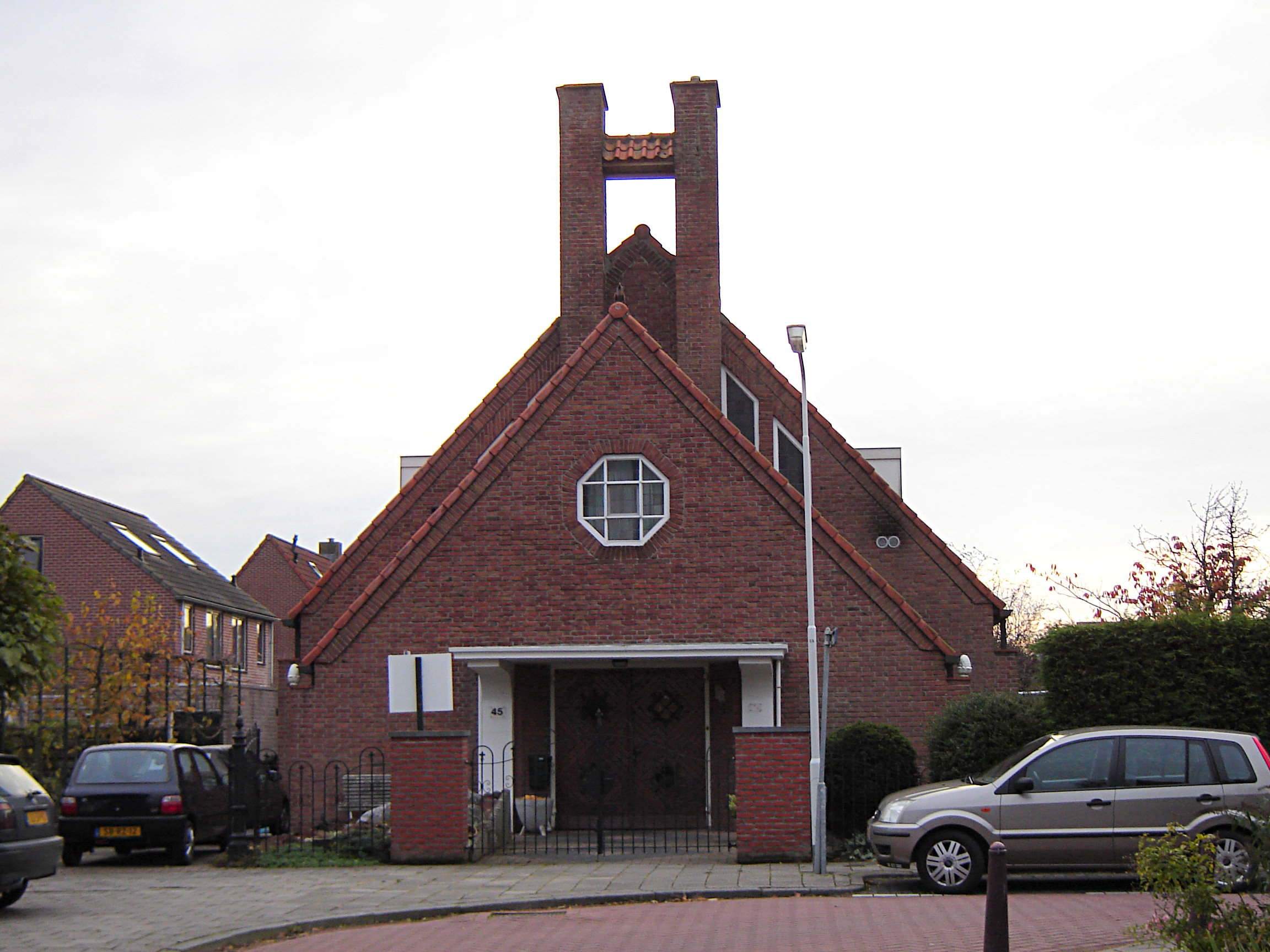 Former church of the Reformed Churches in the Netherlands (GKN) in Hoek, now a private residence. Hoek, Terneuzen, Zeeland, the Netherlands